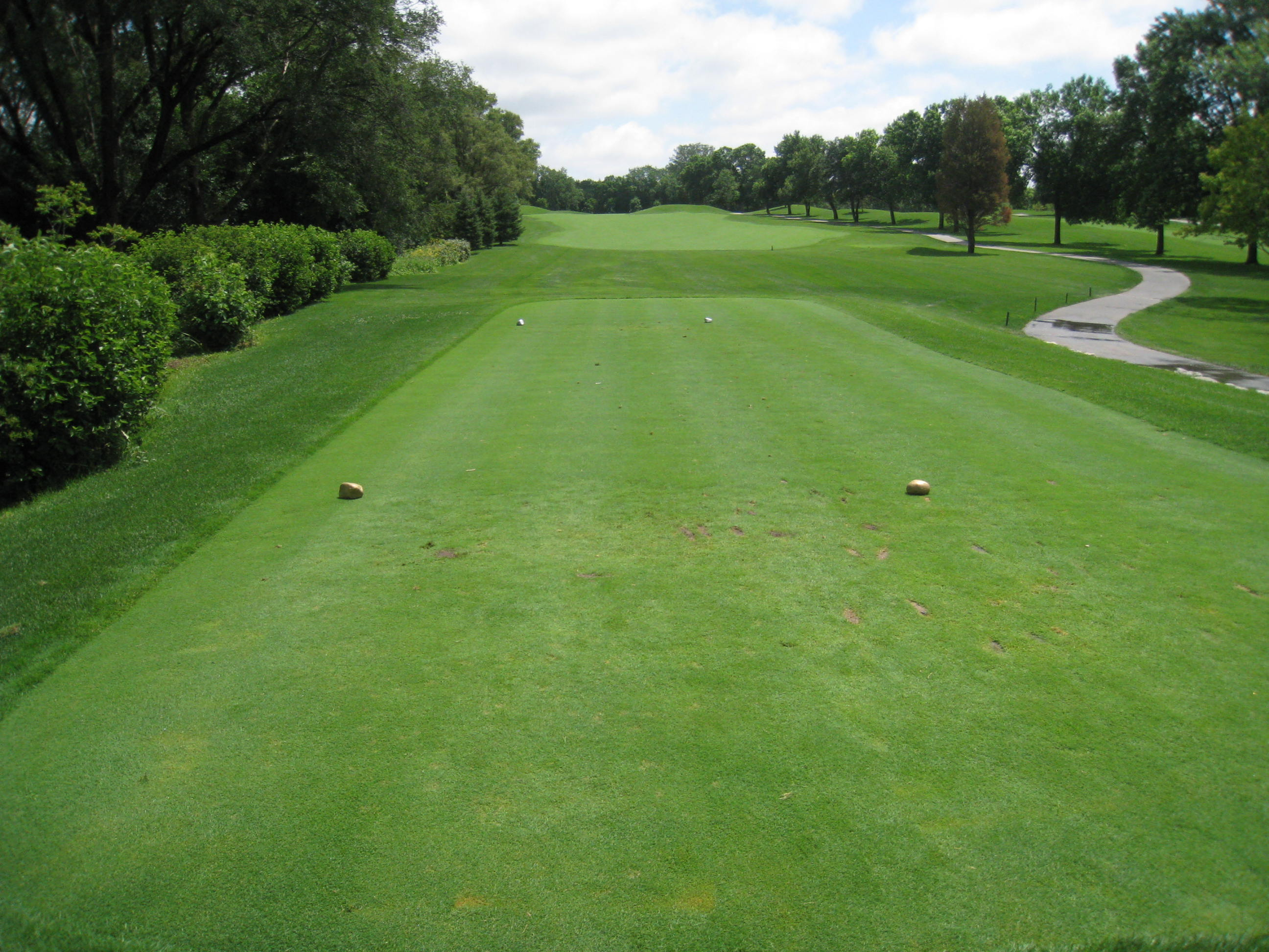 Teeing area.